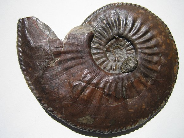 Amaltheus gibbosus